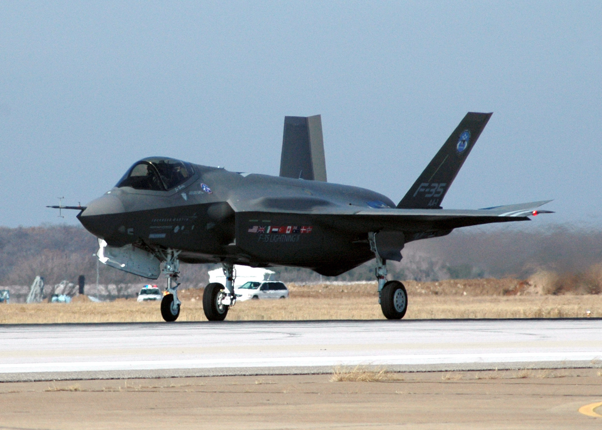 Fort Worth, Texas - The F-35 Joint Strike Fighter Lightning II, built by Lockheed Martin takes off for its first flight to test the aircraft's initial capability at Joint Reserve Base Fort Worth.